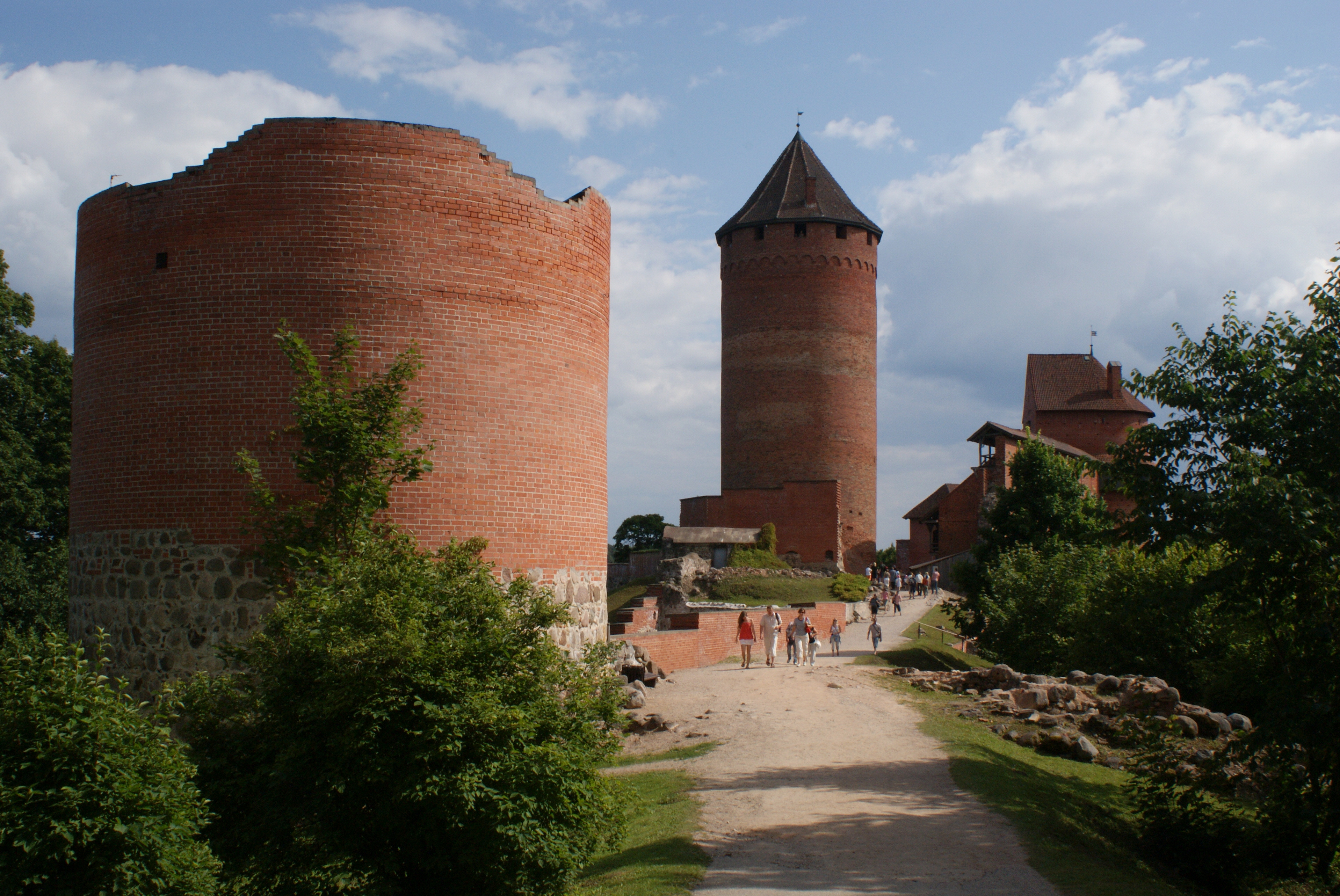 Bishops Castle in Turaida (Latvia)